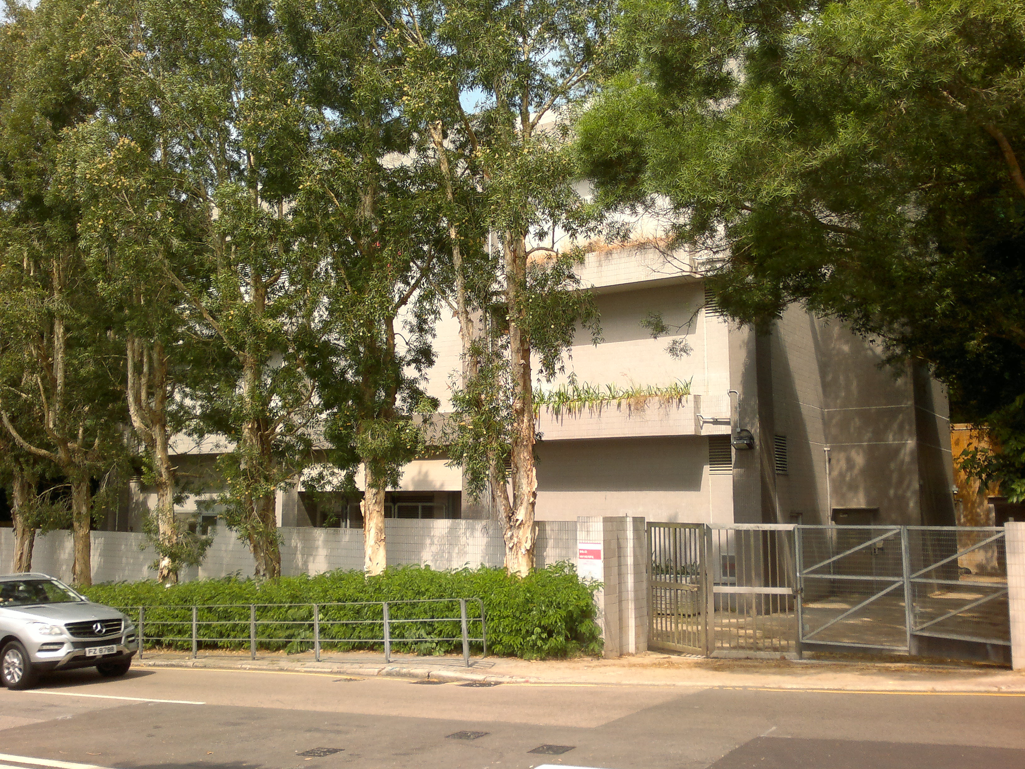 Nam Fung - Parker Cable Tunnel Nam Fung Portal